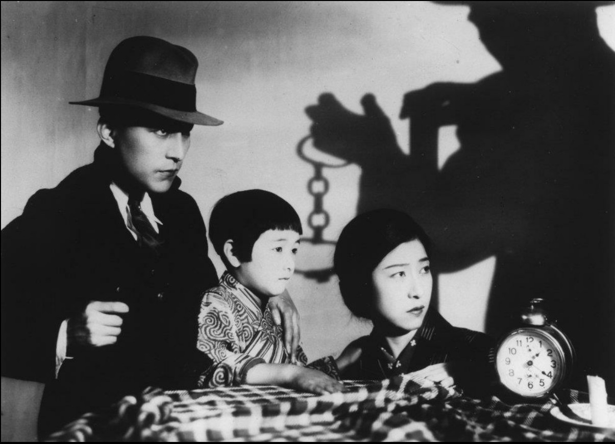 Tokihiko Okada, Mitsuko Ichimura and Emiko Yagumo in Sono yo no tsuma (1930) directed by Yasujirō Ozu